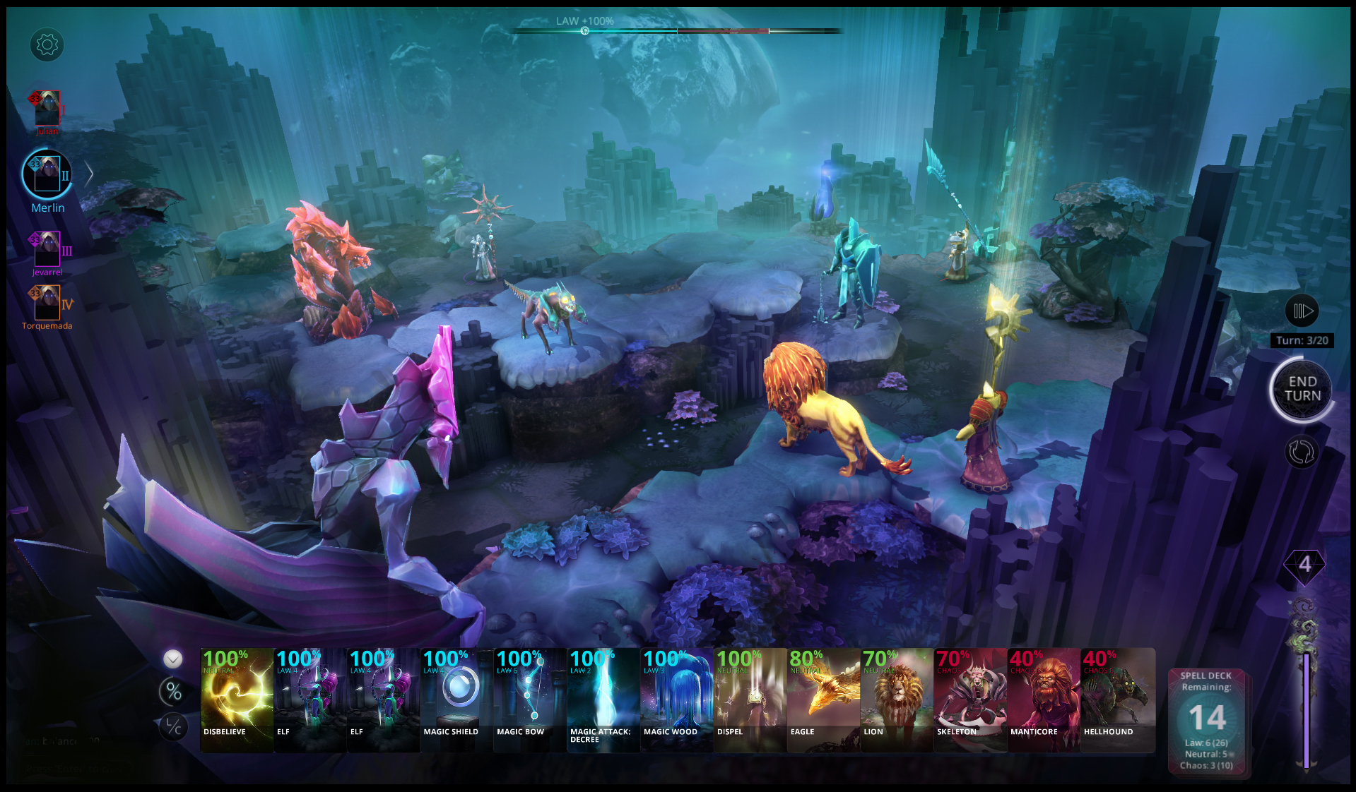 Chaos Reborn screenshot. Characters cast spells within the game, and these spells alter the appearance of the environment. This screenshot shows the influence of Law-aligned spells. Released in 2015, the game was developed by Snapshot Games and is powered by Unity.